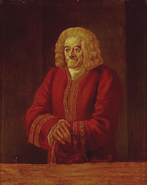 Voltaire, painting of an unknown artist